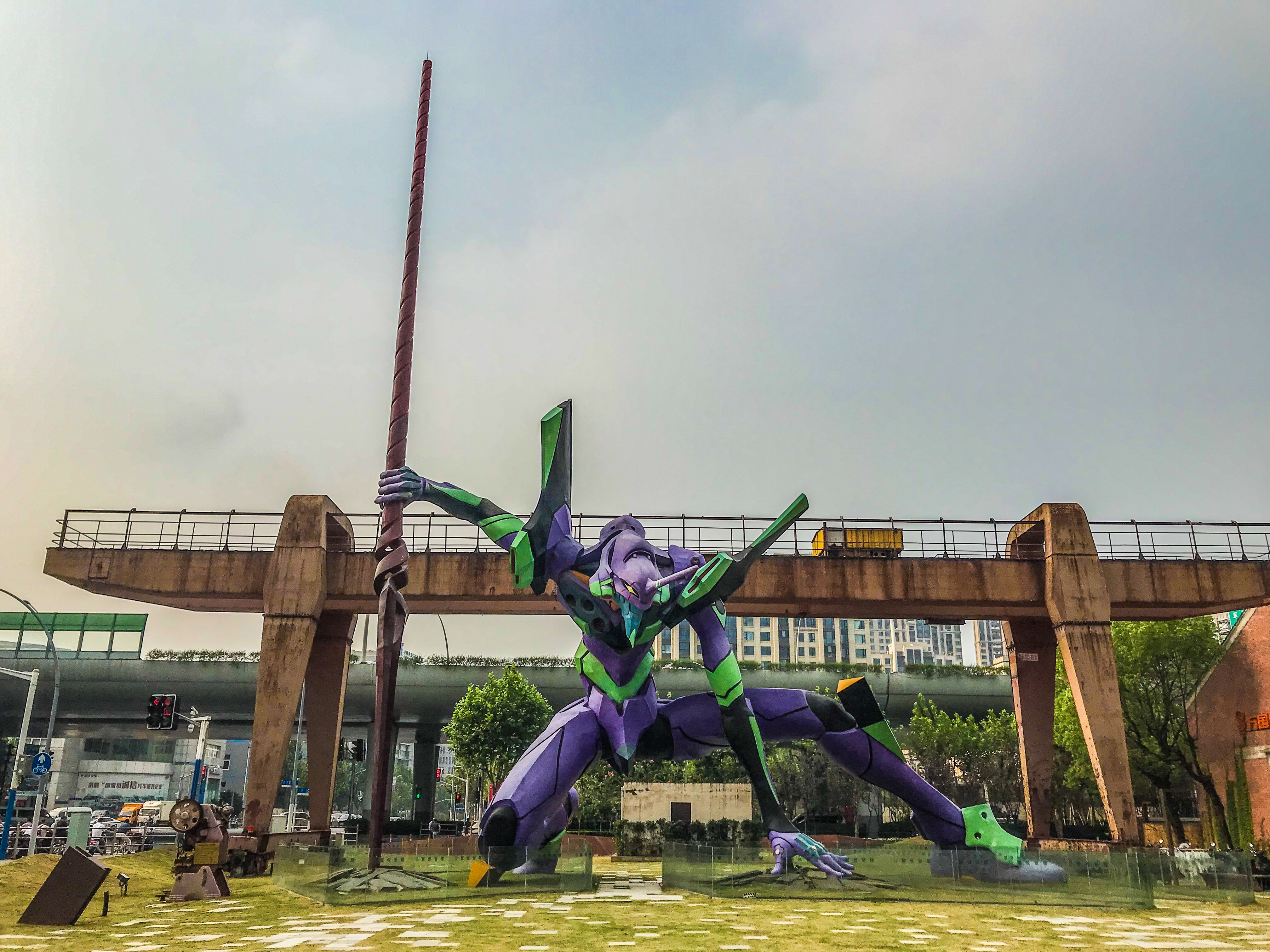 中文（中国大陆）: Evangelion Test Type-01 at the site of Shanghai Metallurgical & Mine Machinery Factory